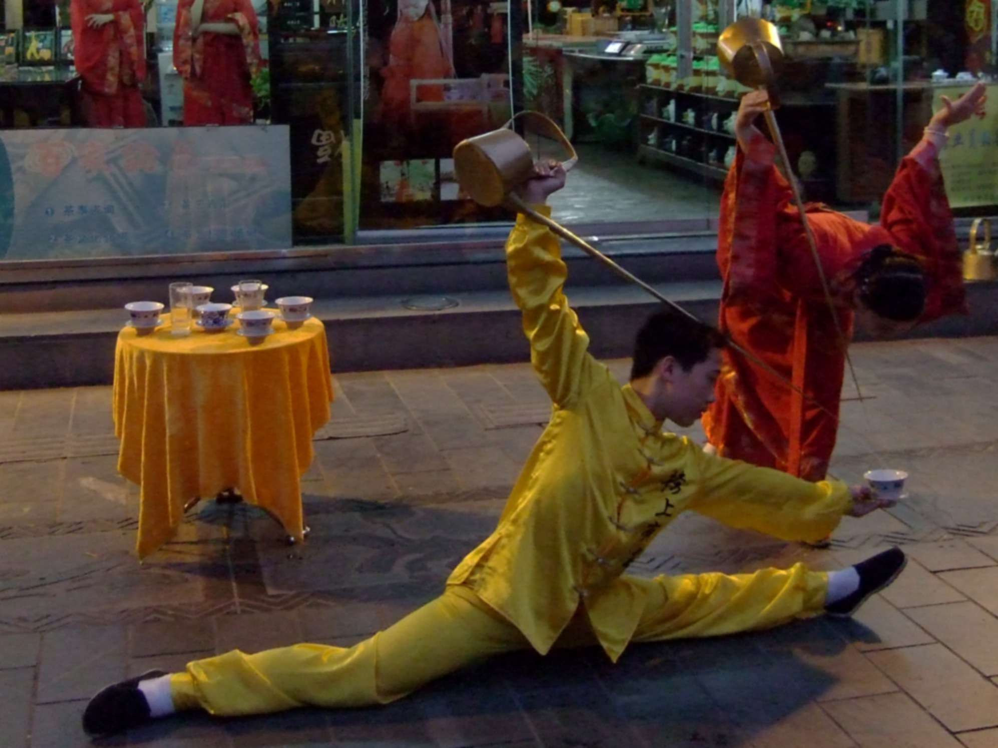 Tea pouring in Chengdu